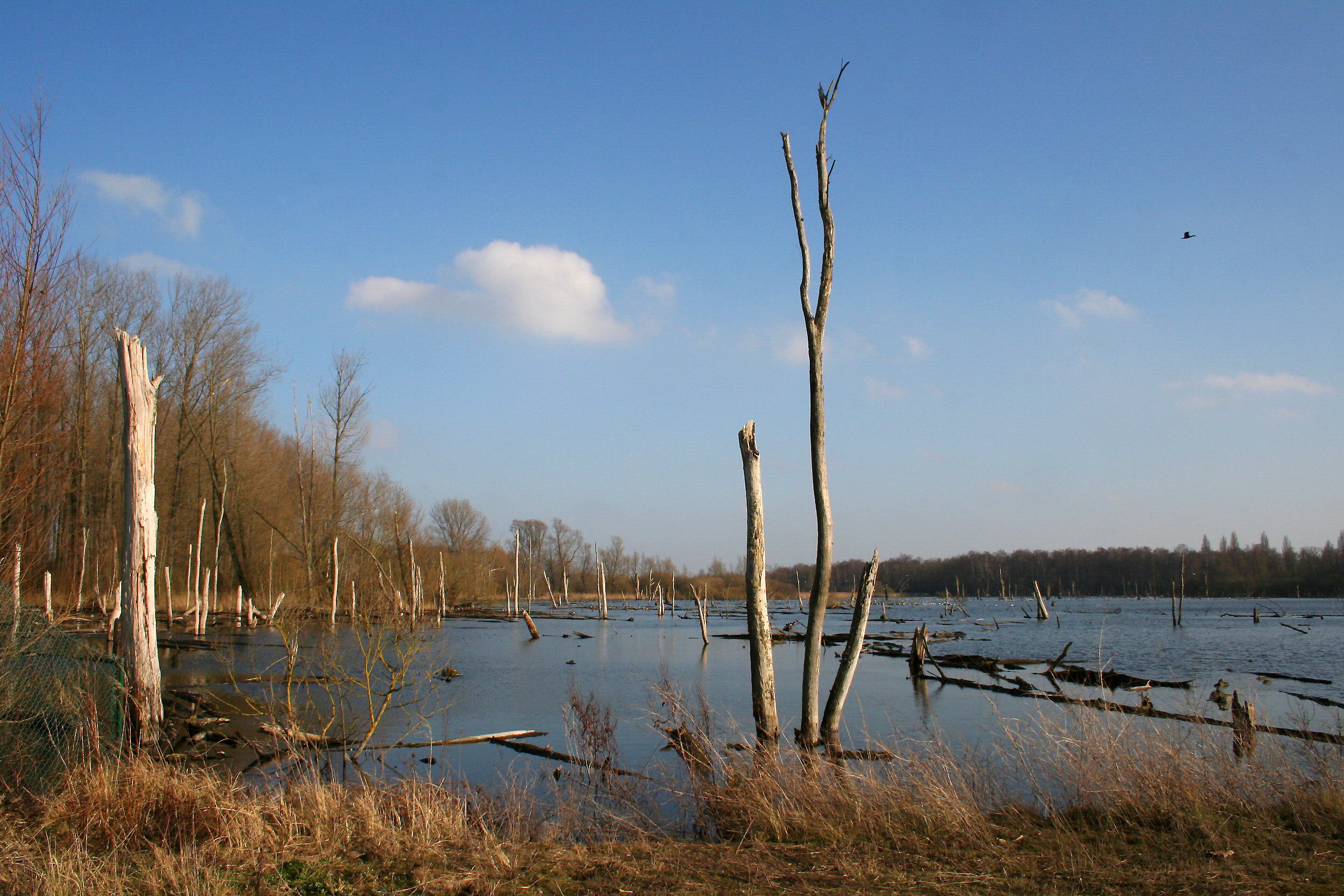 Hensies (Bèlgium), the Van Gheyt pond. Walon: Insîye (Bèljike), li vèvî Van Gheyt.